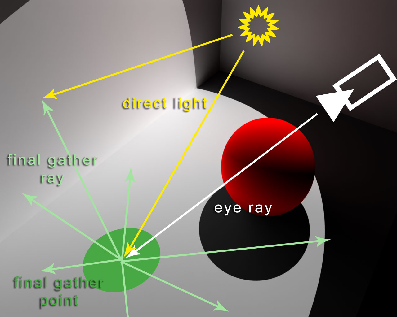 Description: *Descripton a schema that shows how final gathering works. Source: Metoc Created with Maya and Mental Ray just a spotlight with raytraced shadows and Final Gathering on. Keywords: 3d-computergraphics, Final Gather, Maya, cg